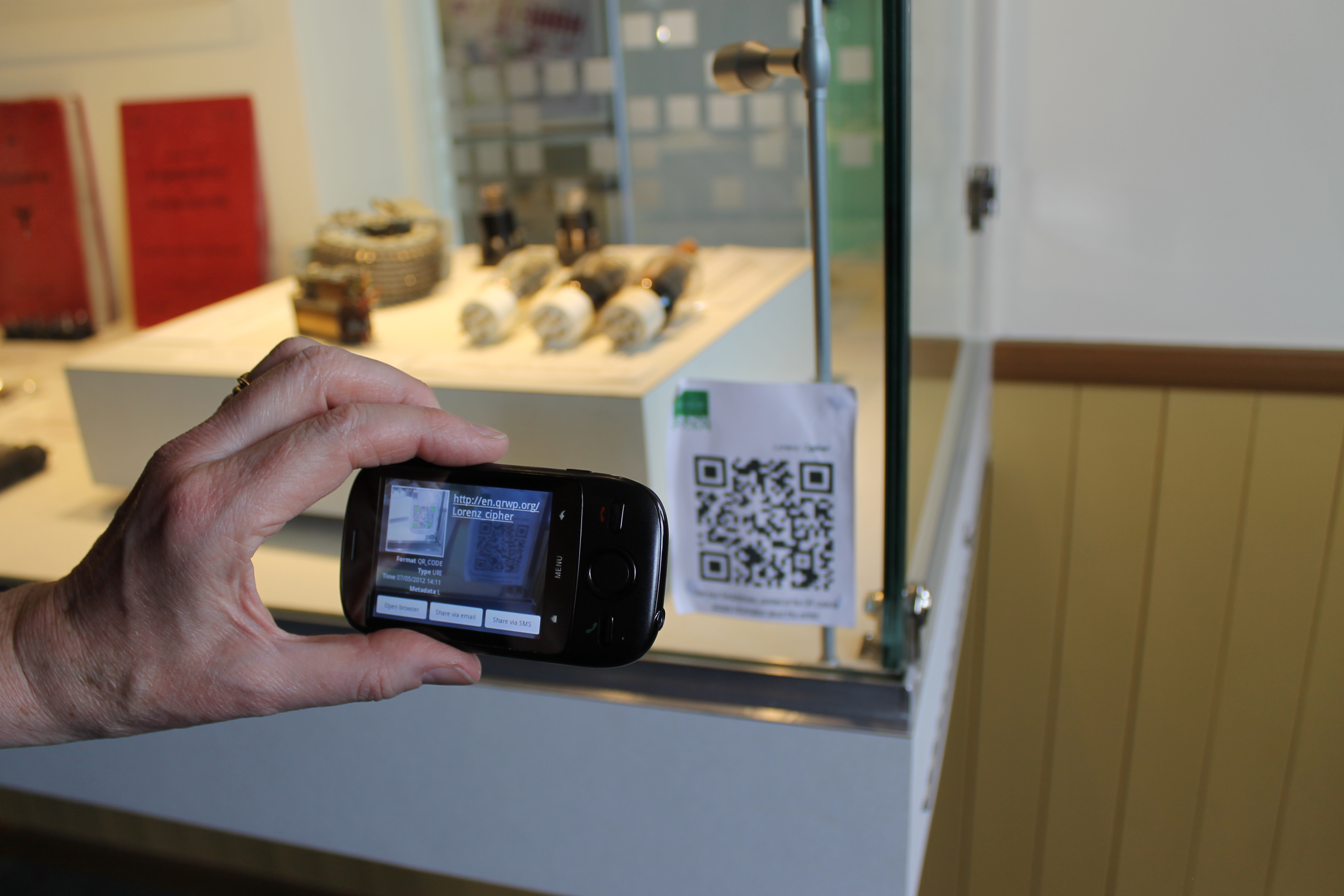 A visitor scans a QRpedia code at The National Museum of Computing.